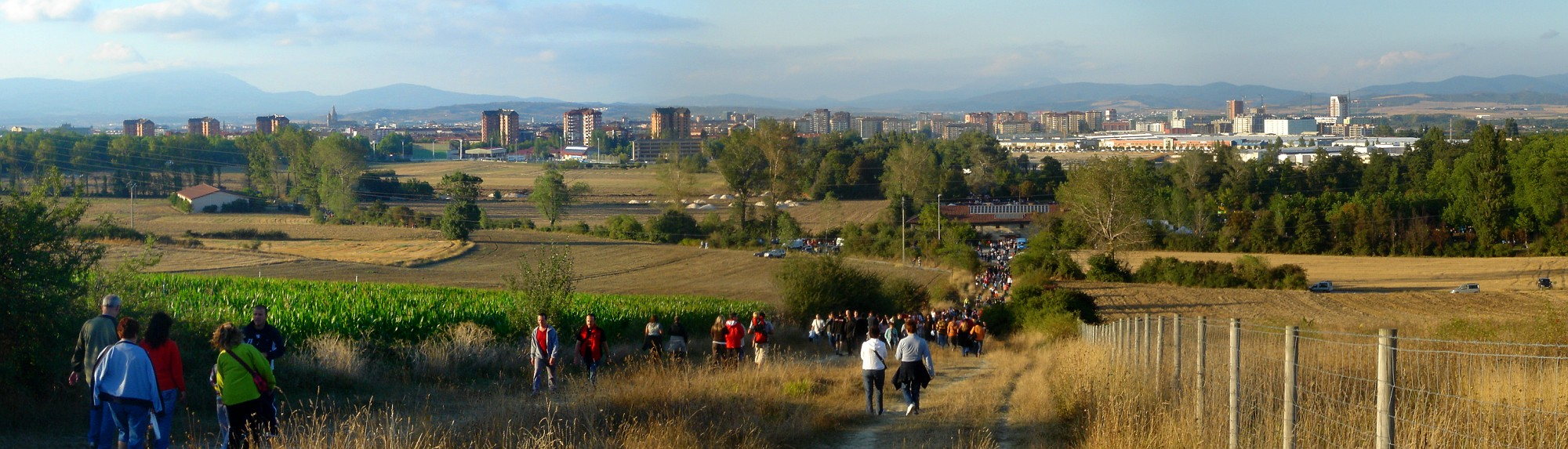 View of Vitoria-Gasteiz from Olarizu